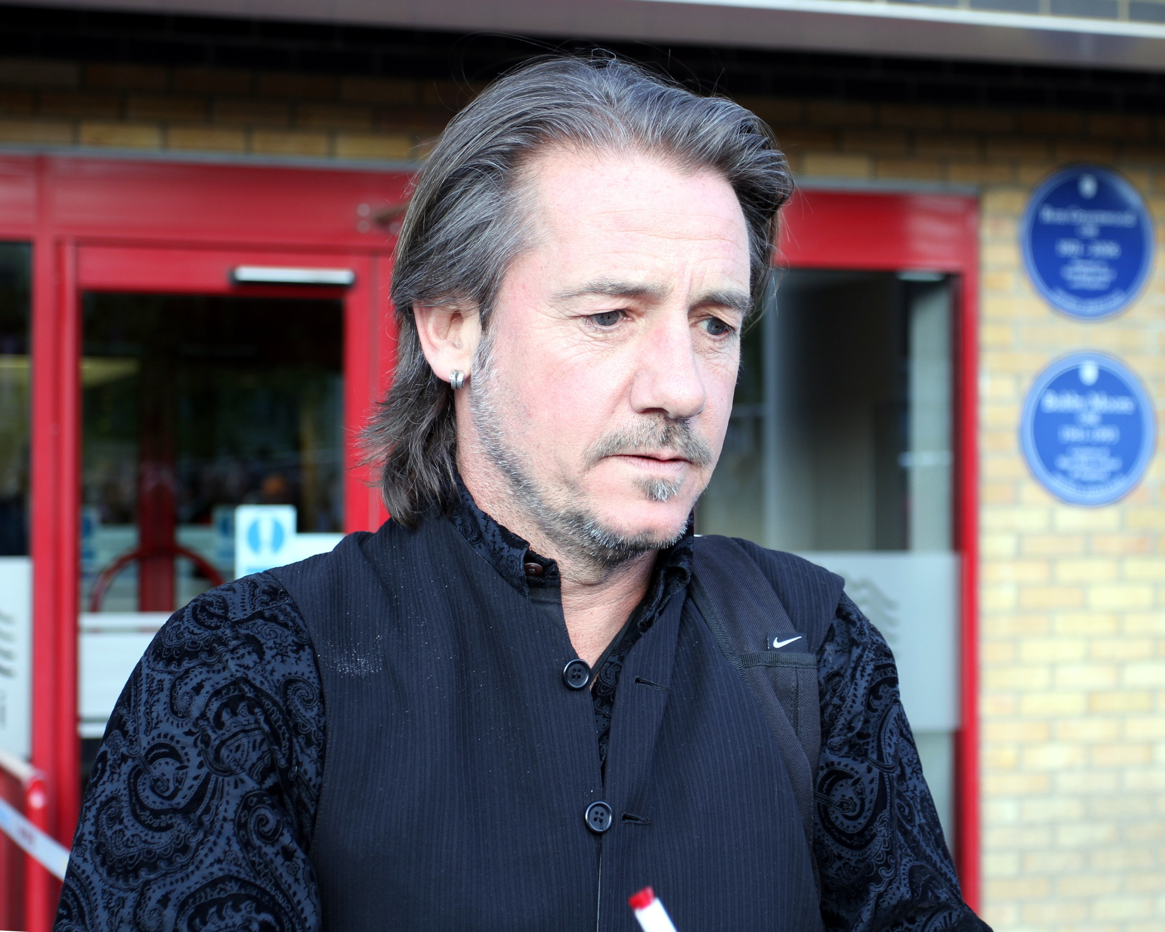 Ian Bishop at West Ham United's Boleyn Ground 19 April 2014.jpg